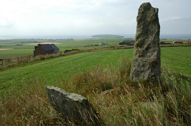 Stane Randa (Stanerandy on OS map) There were two ancient stones standing 2 metres apart and of about 1.7 metres in height. One stone is now broken.